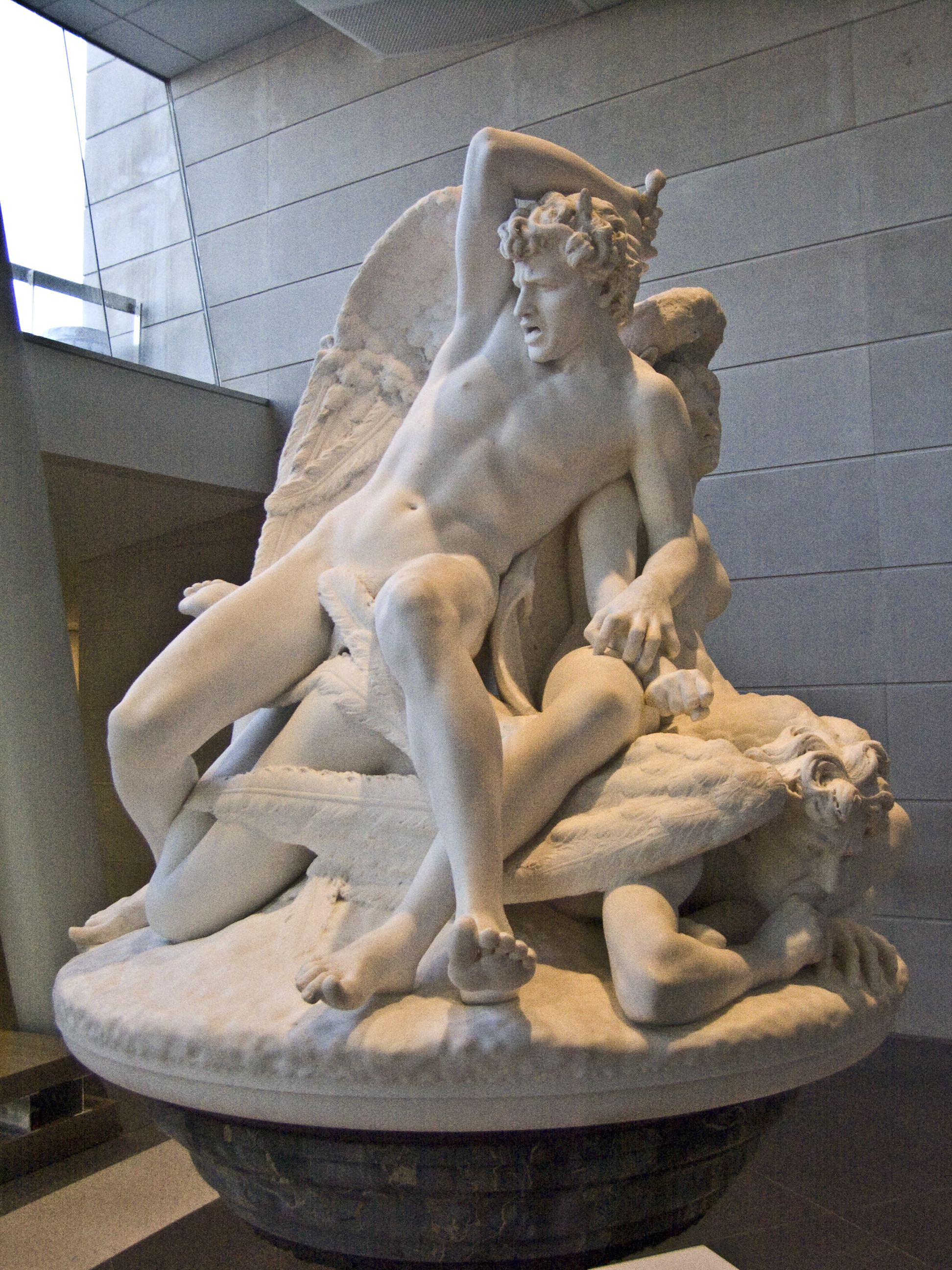 Salvatore Albano (Italian, 1841-1893). The Rebel Angels, 1883-93. Marble. Brooklyn Museum, Gift of A. Augustus Healy, 97.35.